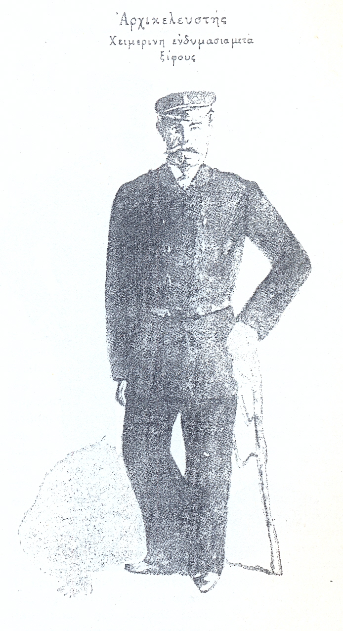 Old Hellenic Navy uniform